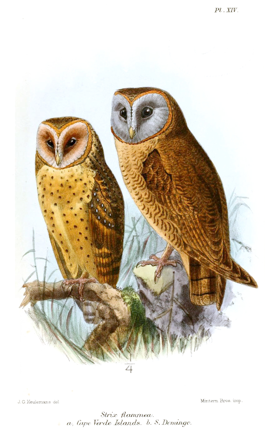 Barn Owl (left), Ashy-faced Owl (right)